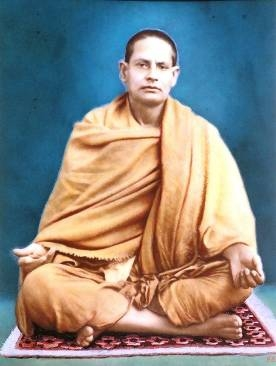 Swami Premananda, a direct disciple of Sri Ramakrishna